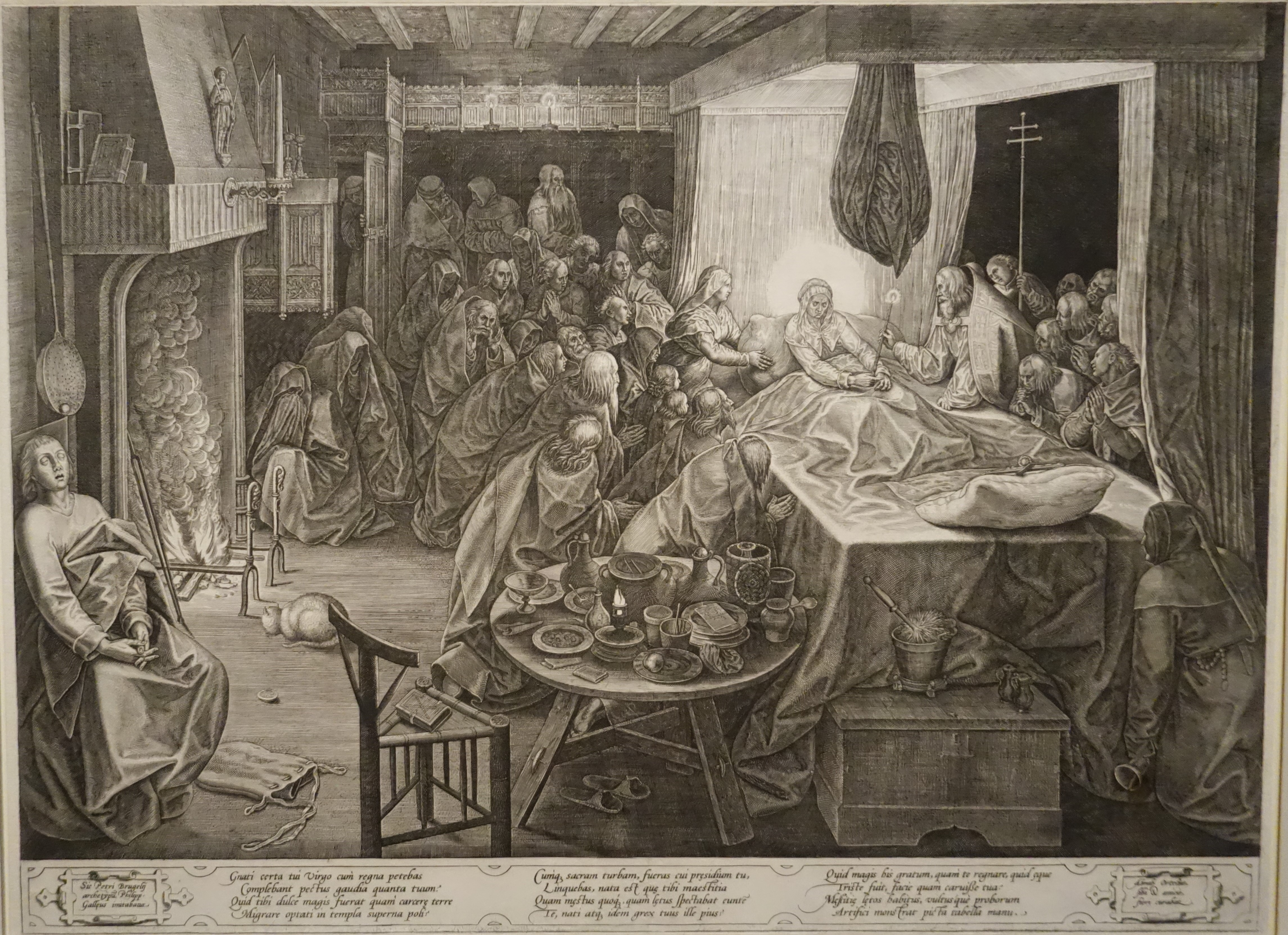 Philips Galle after Pieter Bruegel the Elder, Death of the Virgin, 1574